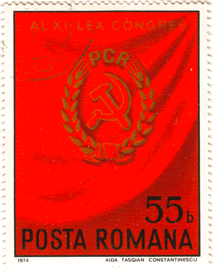 XIth Congress of the Communist Party of Romania